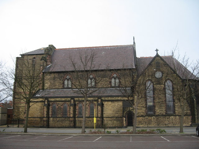 St John the Baptist St John the Baptist in Earlestown is a large church but looks somewhat unbalanced probably due to the fact that the original plans had included a clock tower which had to be curtailed due to lack of funding. On August 4, 1875,the foundation stone was laid by Mrs. W J. Legh, wife of the Lord of the Manor, who had donated the land in Market Street. The new Church was consecrated on January 6, 1879.